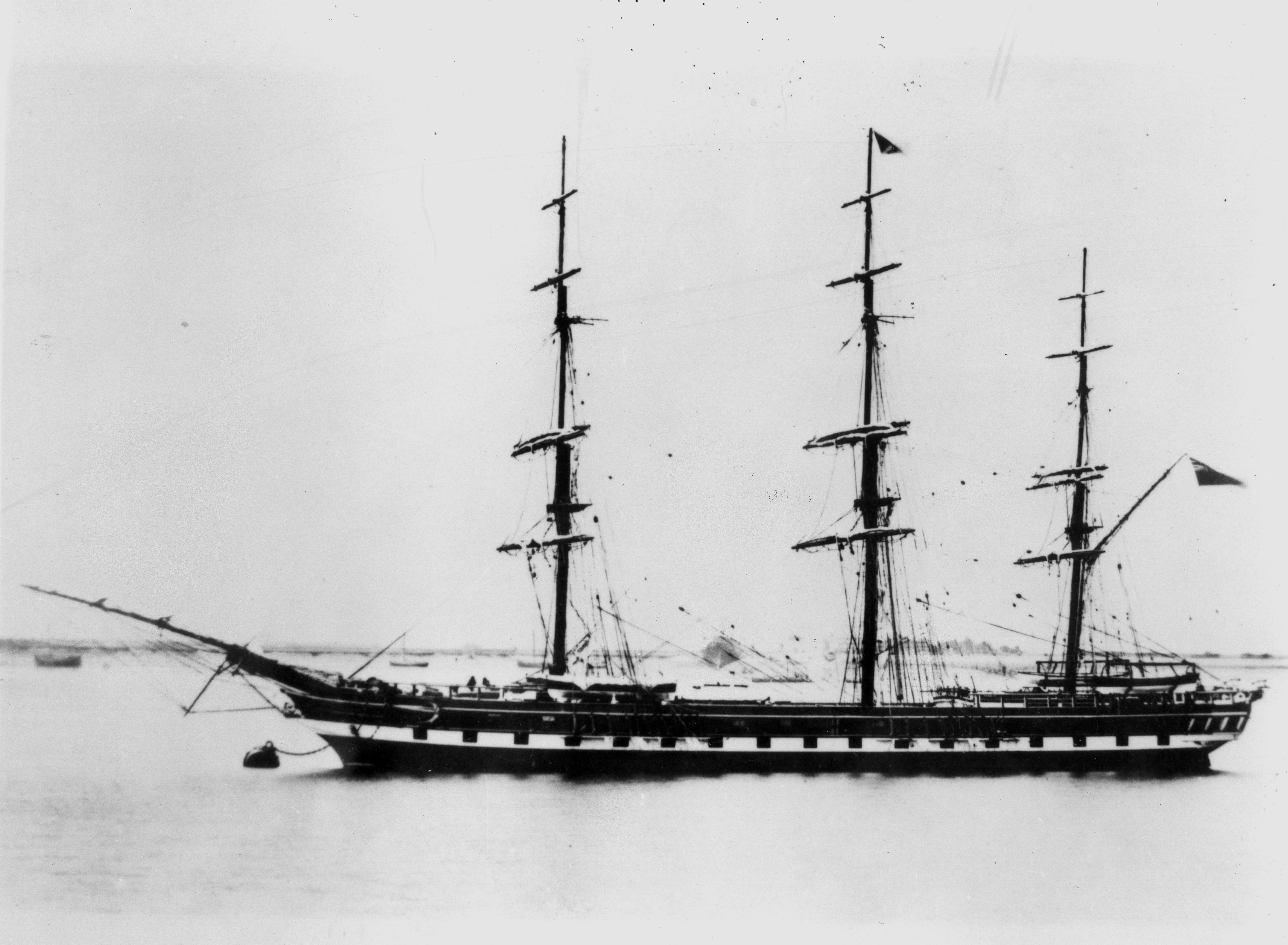 Earl Dalhousie (ship) 1047 tons. Built 1862. Built and owned by A. Stephen & Sons, Dundee. Dimensions are 191.5 feet long, 34 feet beam, 22.2 feet deep. (Description supplied with photograph).